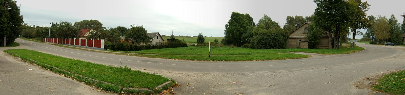 Town Bagaslaviškis